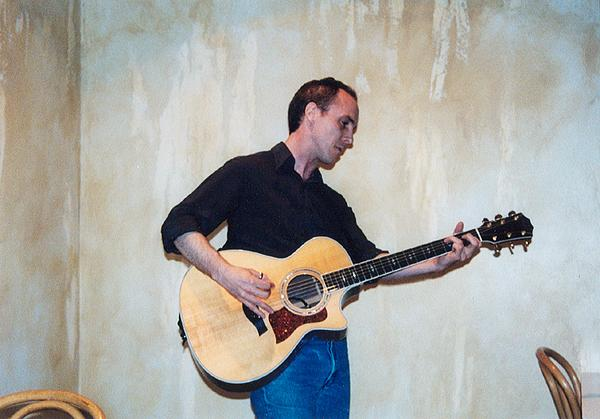 Freedy Johnston plays a solo show at Tanya's Soup Kitchen, Wichita, Kansas, 1998.